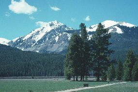 from (public domain)